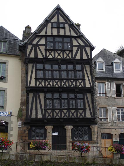 House known as ‘Duchess Anne’s House’, Morlaix, Brittany